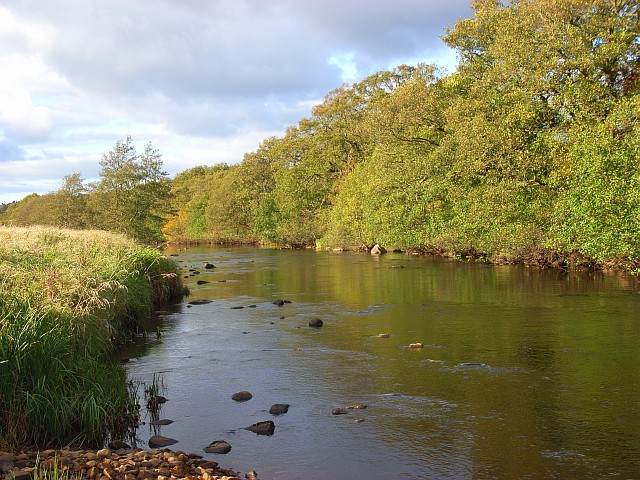 The River Rede Looking upstream from where the river is forded by the bridleway between Rattenraw and Bagraw.